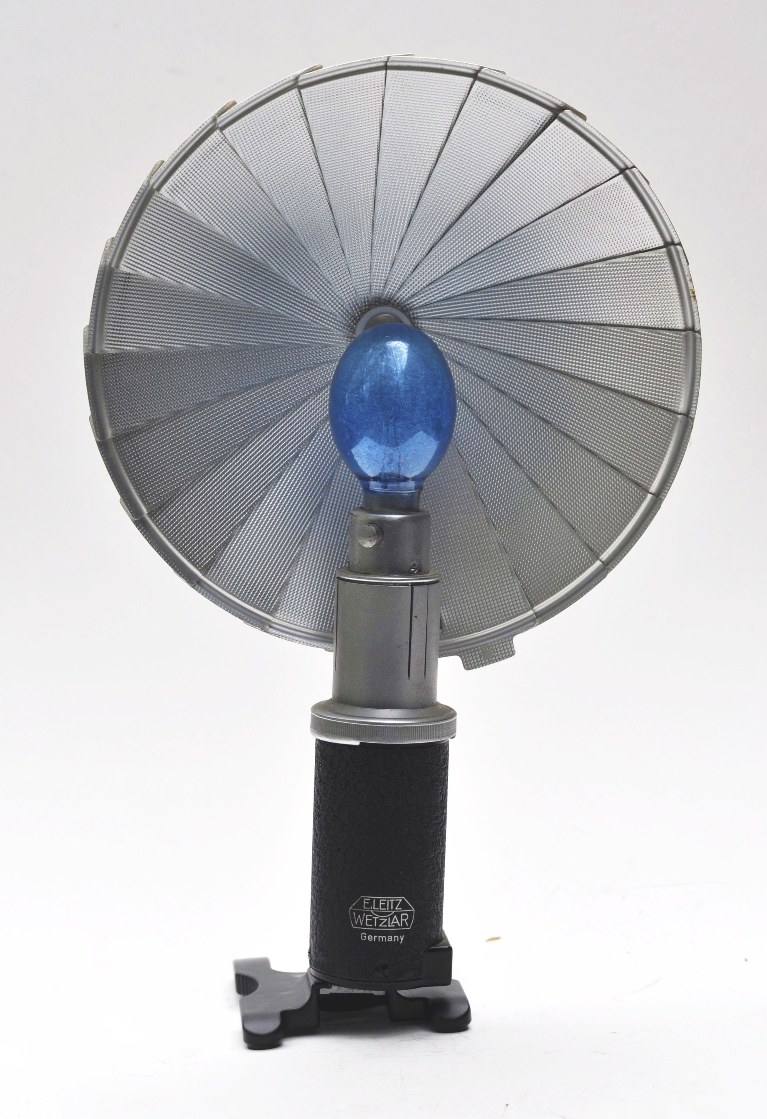 E. Leitz Wetzlar flash from my collection.